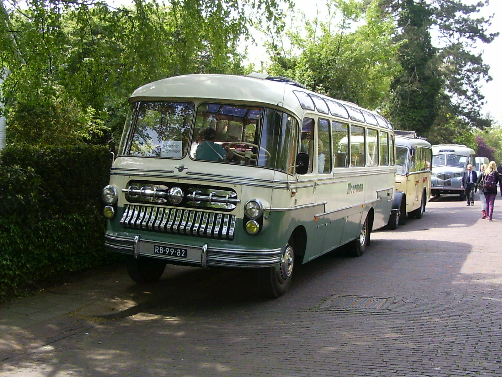 Moorman museumbus number 5